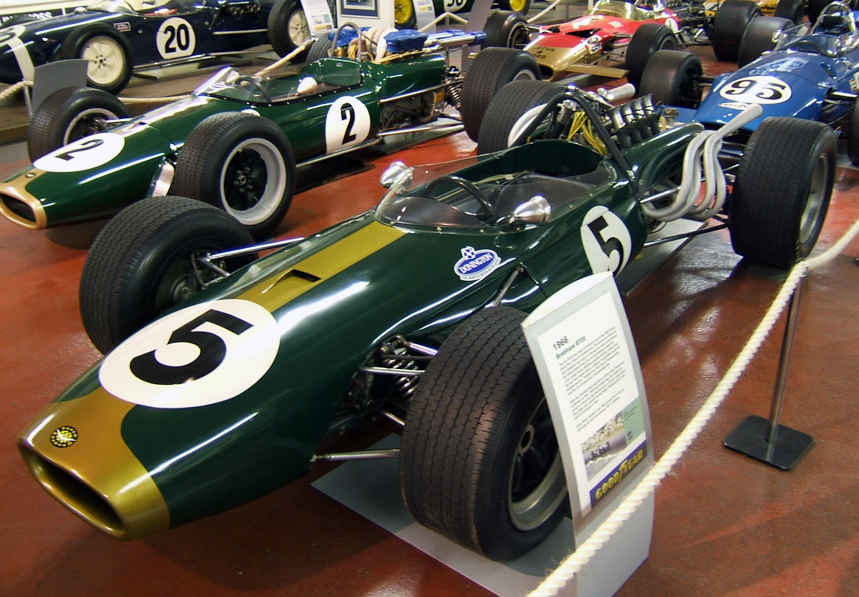 A Brabham BT20 Formula One car of 1966 heads a Brabham BT24, a Brabham BT25 and a Lotus 49B, in the Donington Grand Prix Collection museum, Leics., UK.